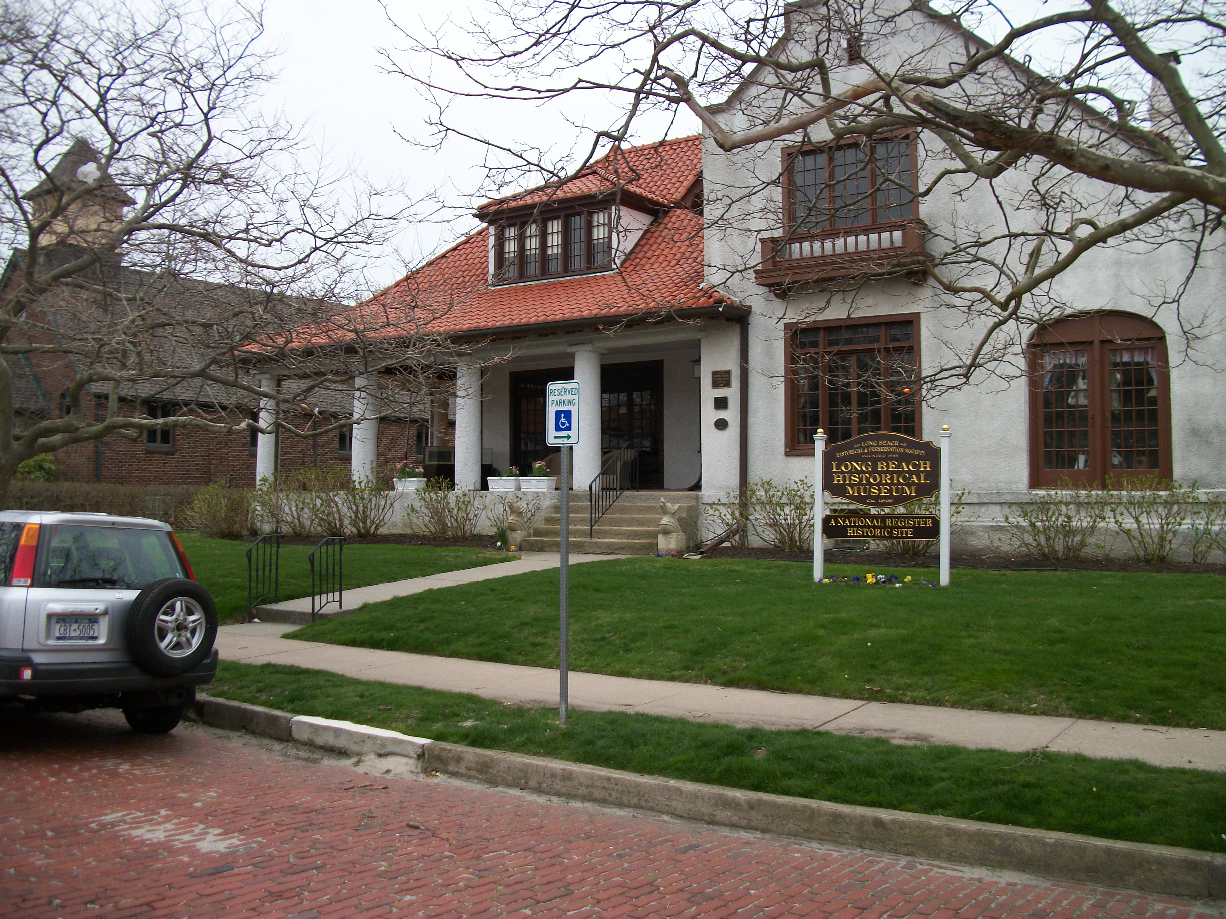 The NRHP-listed House at 226 West Penn Street in Long Beach, New York, now the headquarters of the Long Beach Historical Museum.